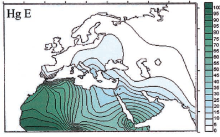 Haplogroup E (M96)